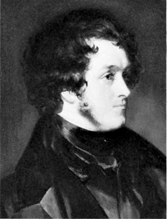 William Harrison Ainsworth (1805 - 1882), English historical novelist.